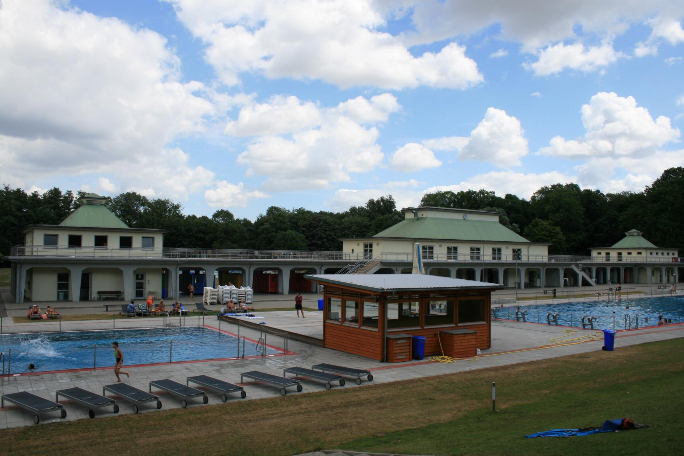 Cultural heritage monument No. P 016 in Mönchengladbach